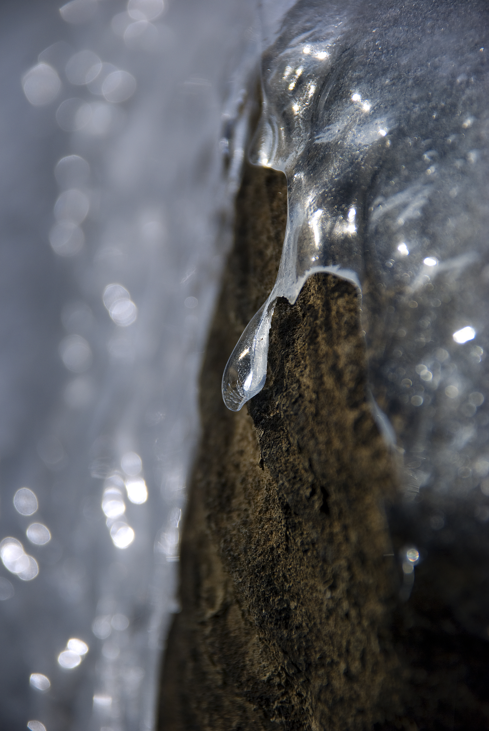 Winter theme: ice on the rocks